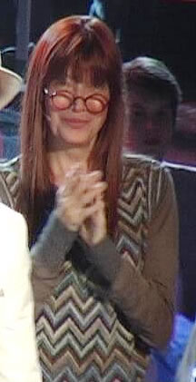 Katja Ebstein, Hamburg 2008